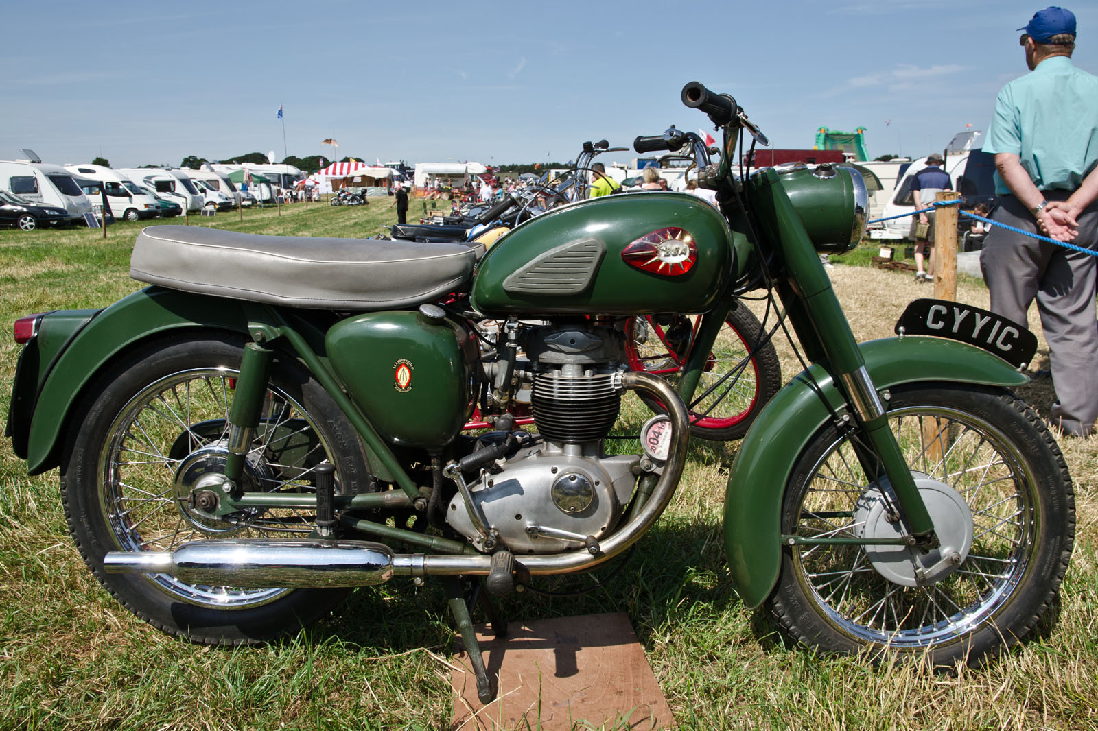 Cheshire Steam Fair 14/07/2013